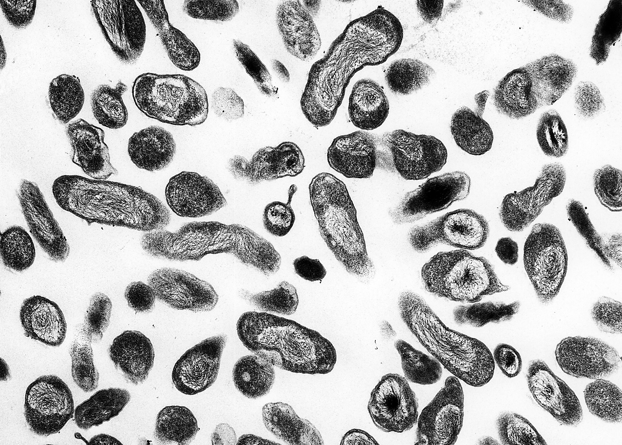 Coxiella burnetii, the bacteria that causes Q fever. Obtained from the NIAID Biodefense Image Library, a division of the NIH. Image credit: Rocky Mountain Laboratories, NIAID, NIH